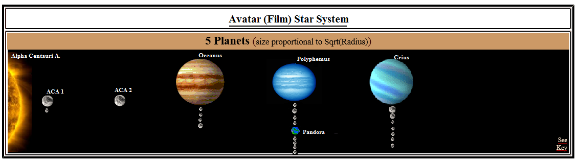 Diagram of the Alpha Centari Star System as depicted in the Avatar Film Franchise.